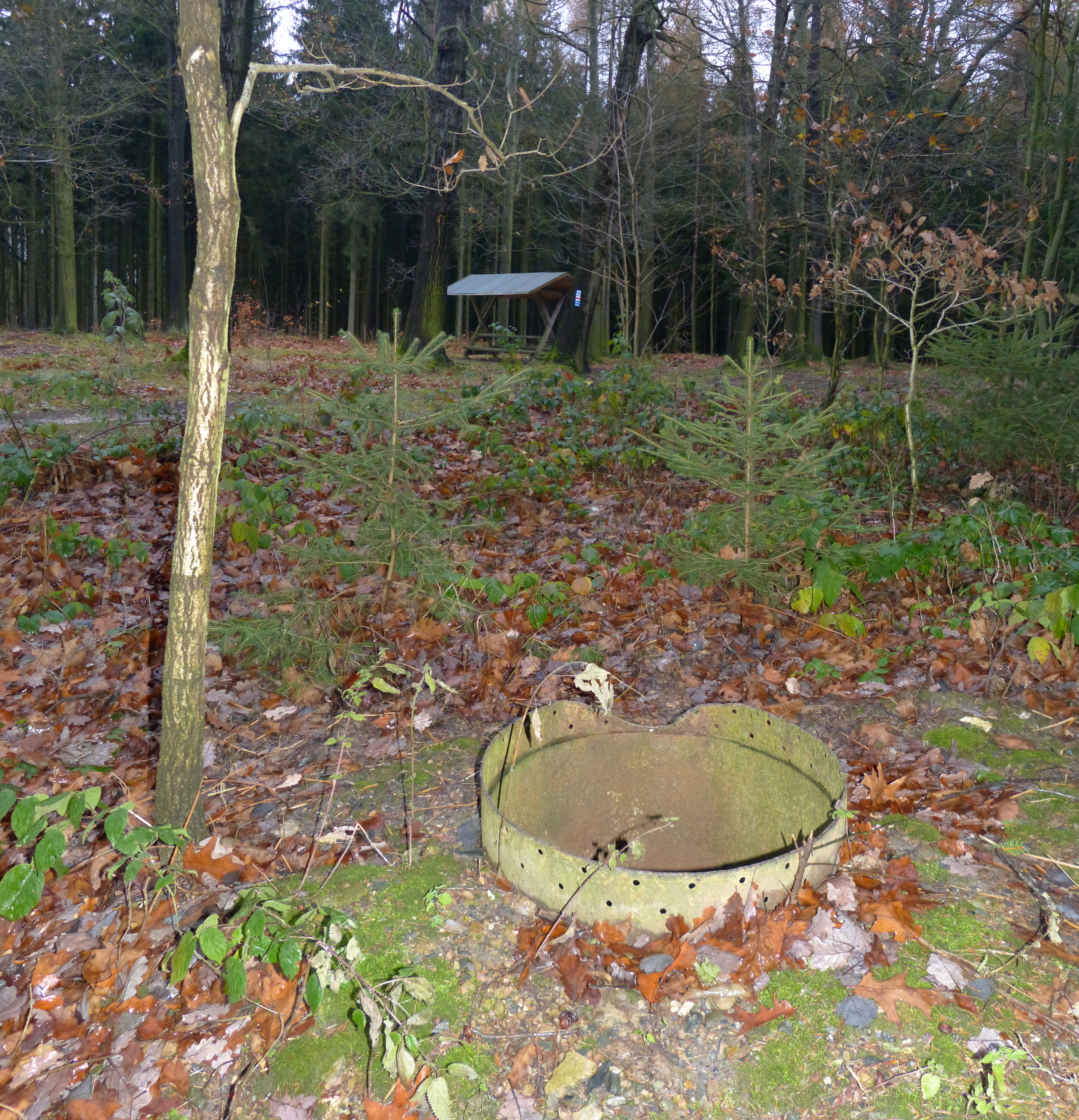 Ventilation tube of the U-Conditioning "Swallow V"